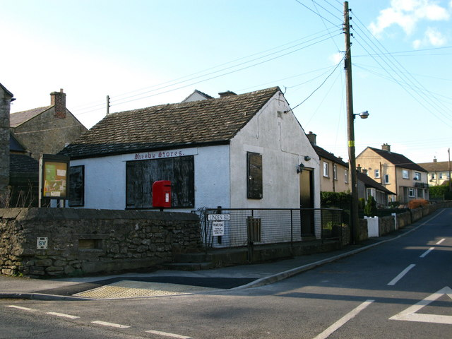 Skeeby Stores On the corner of Richmond Road and Lindon Road.